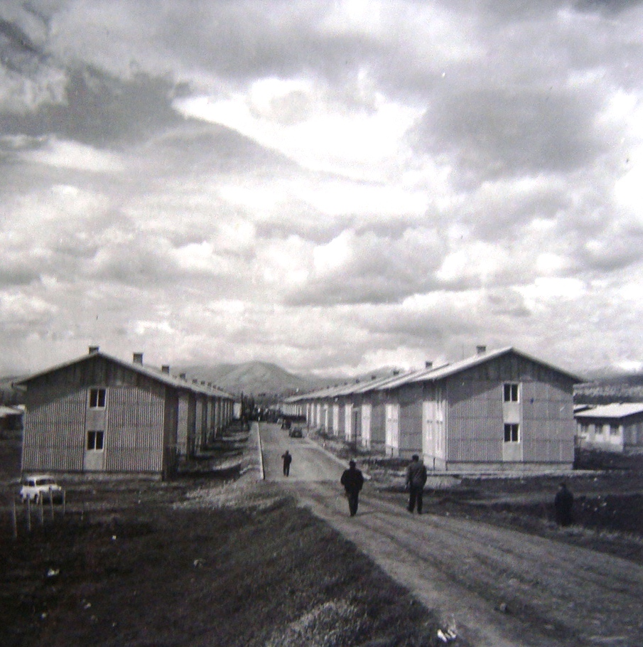 1963 Skopje earthquake: Apartments in the settlement Butel, donation from Bosnia and Herzegovina, 1964 This media file is produced by Wikipedian in Residence in Category:Wikipedian in Residence at DARM in 2016.